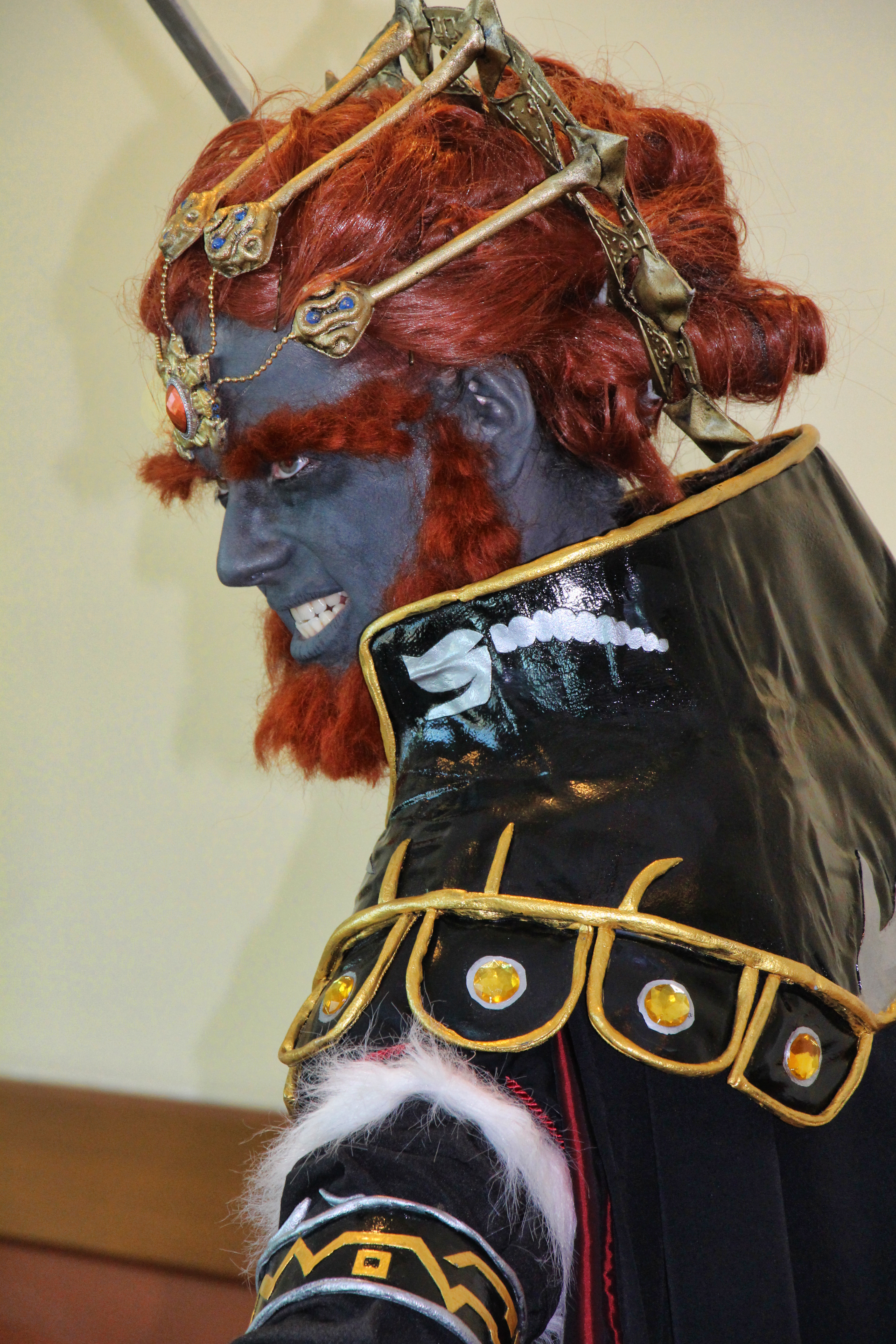 Ganondorf Twilight Princess: 2015 Calgary Expo – Calgary Comic & Entertainment Expo